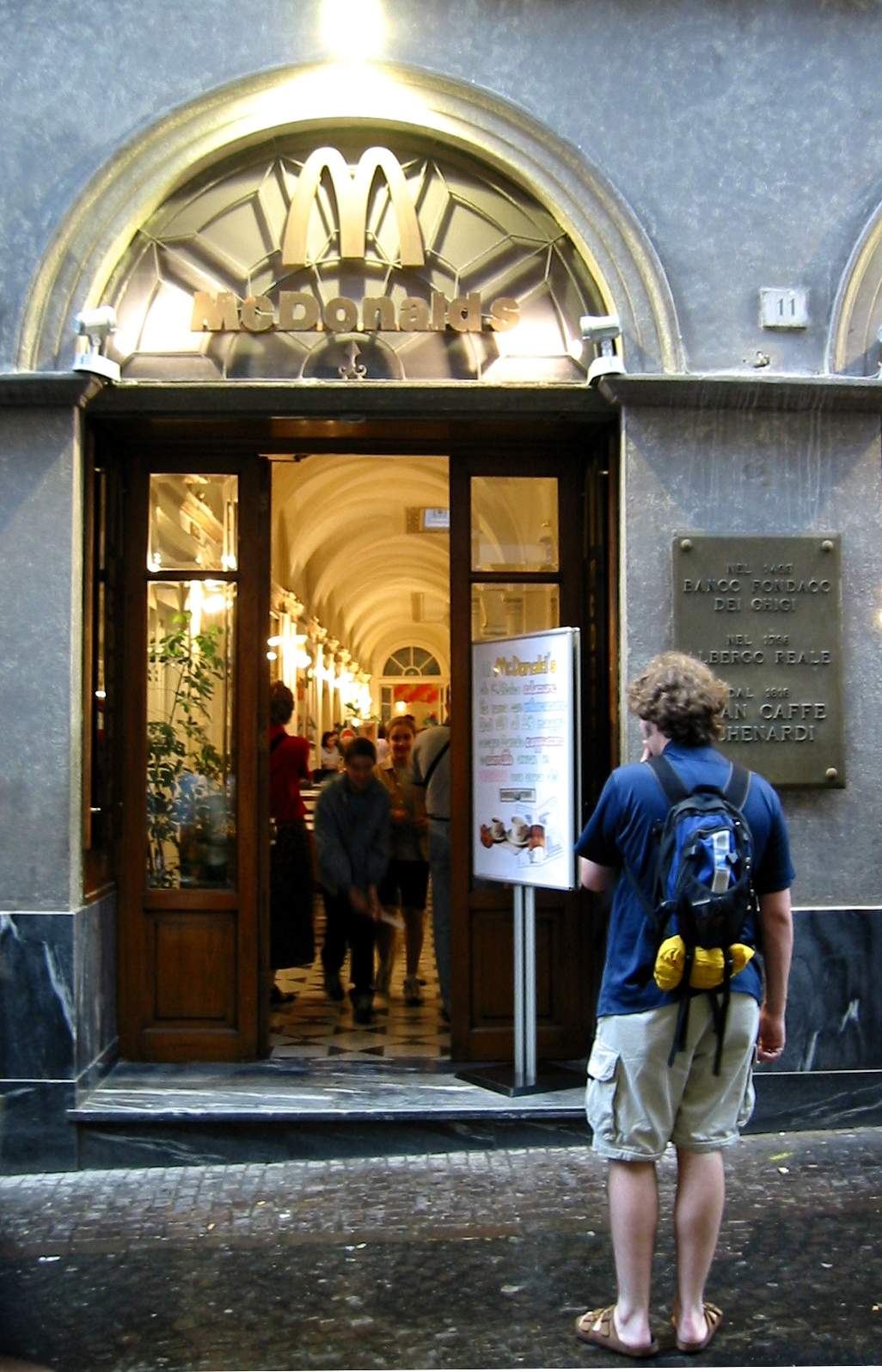 McDonalds in Viterbo in Italy